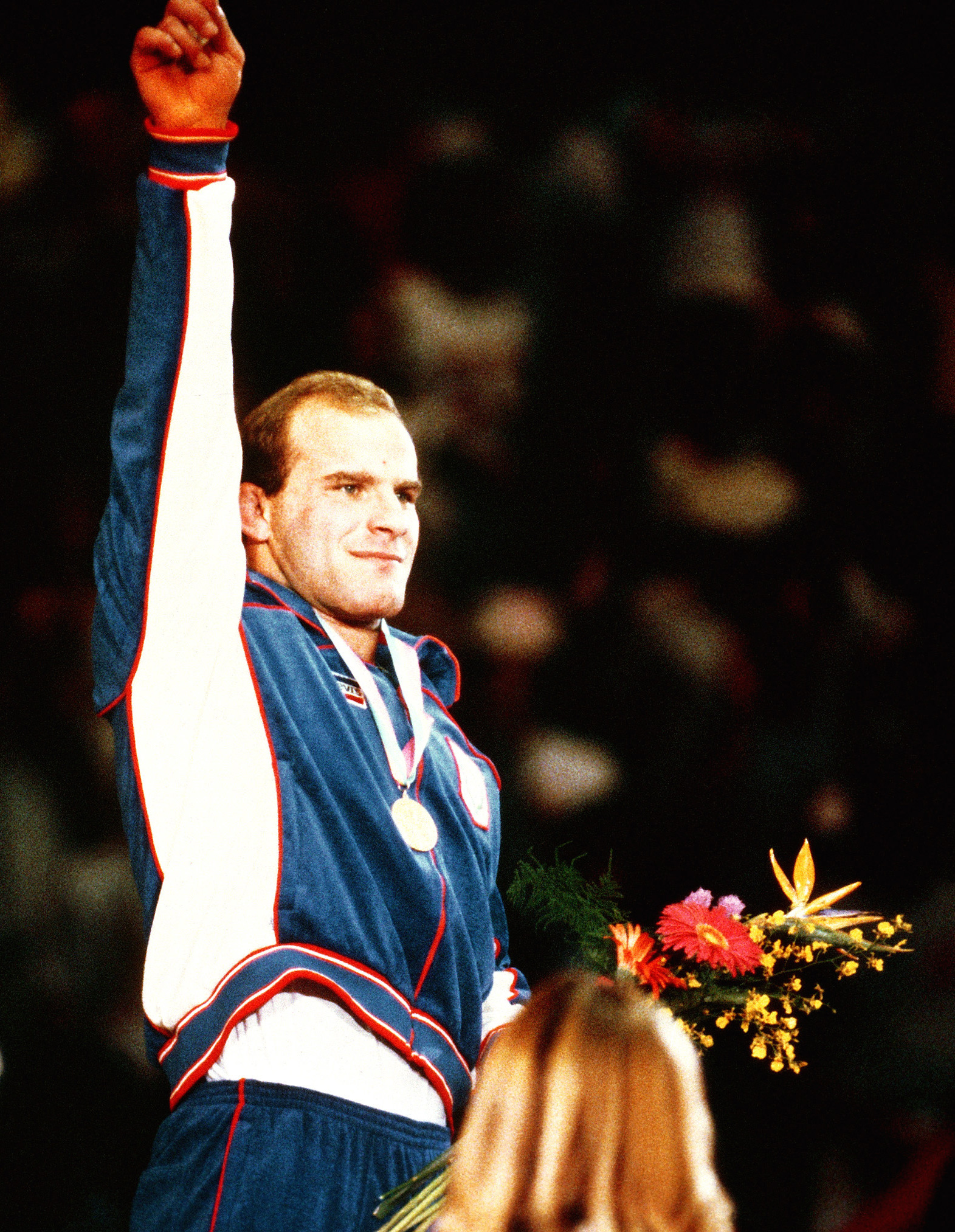 Army Second Lieutenant Ludwig D. Banach raises his arm in victory after receiving a gold medal in freestyle wrestling at the 1984 Summer Olympics. (original text)